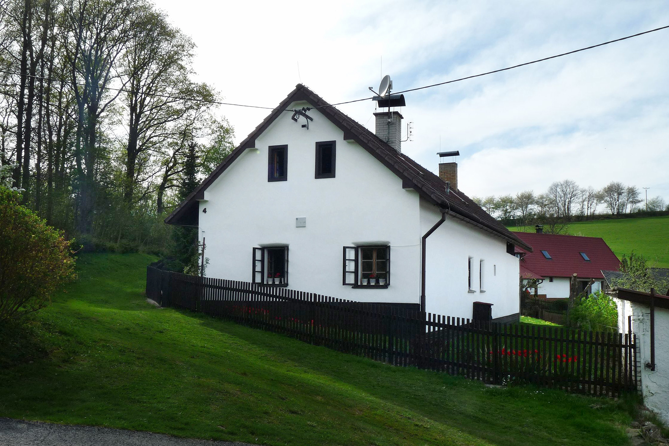 House No 4 in the village of Dobrá Voda, part of the town of Klatovy, Klatovy District, Czech Republic.